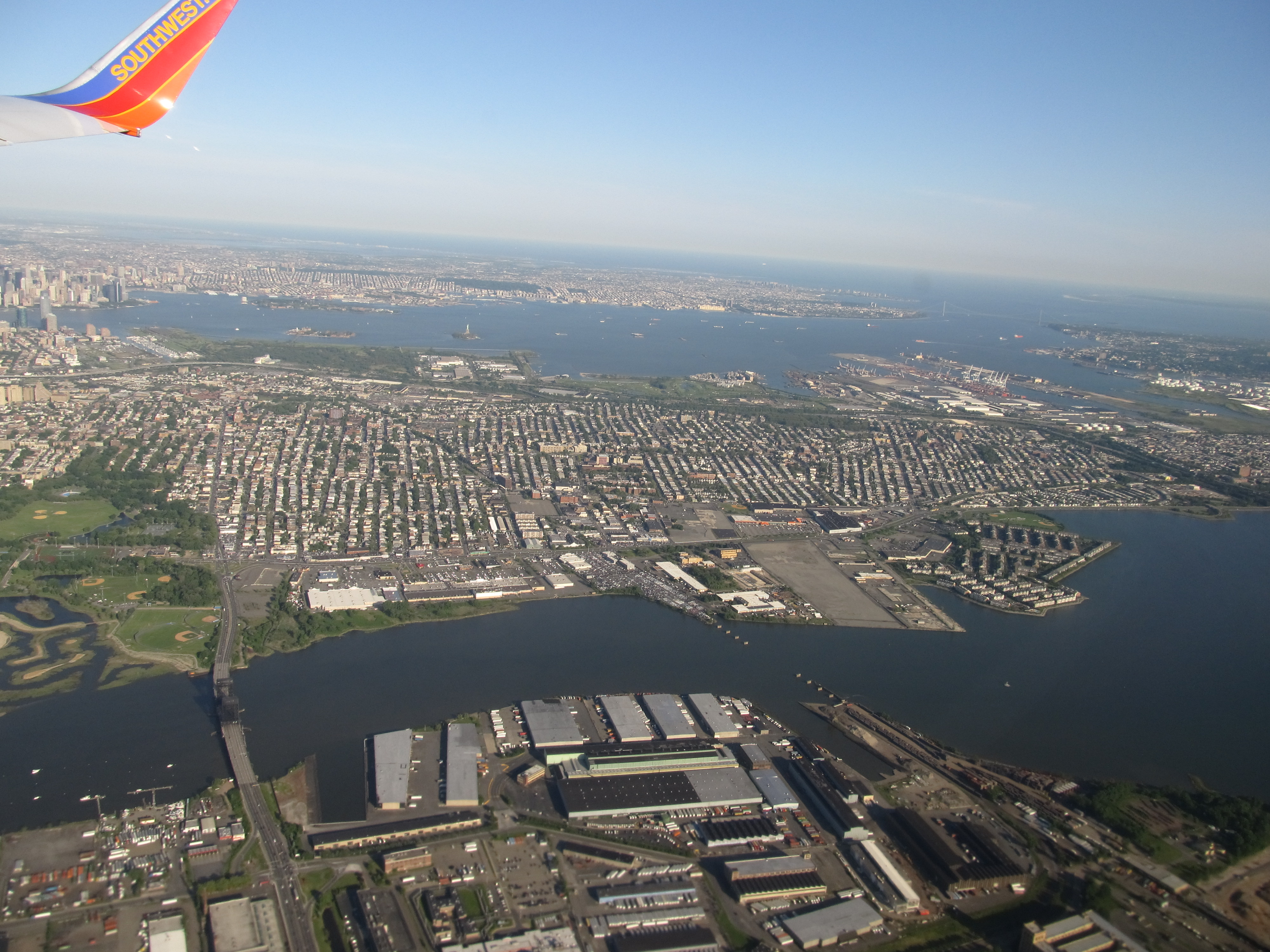 Great views of New York City flying north out of Newark-Liberty International Airport.